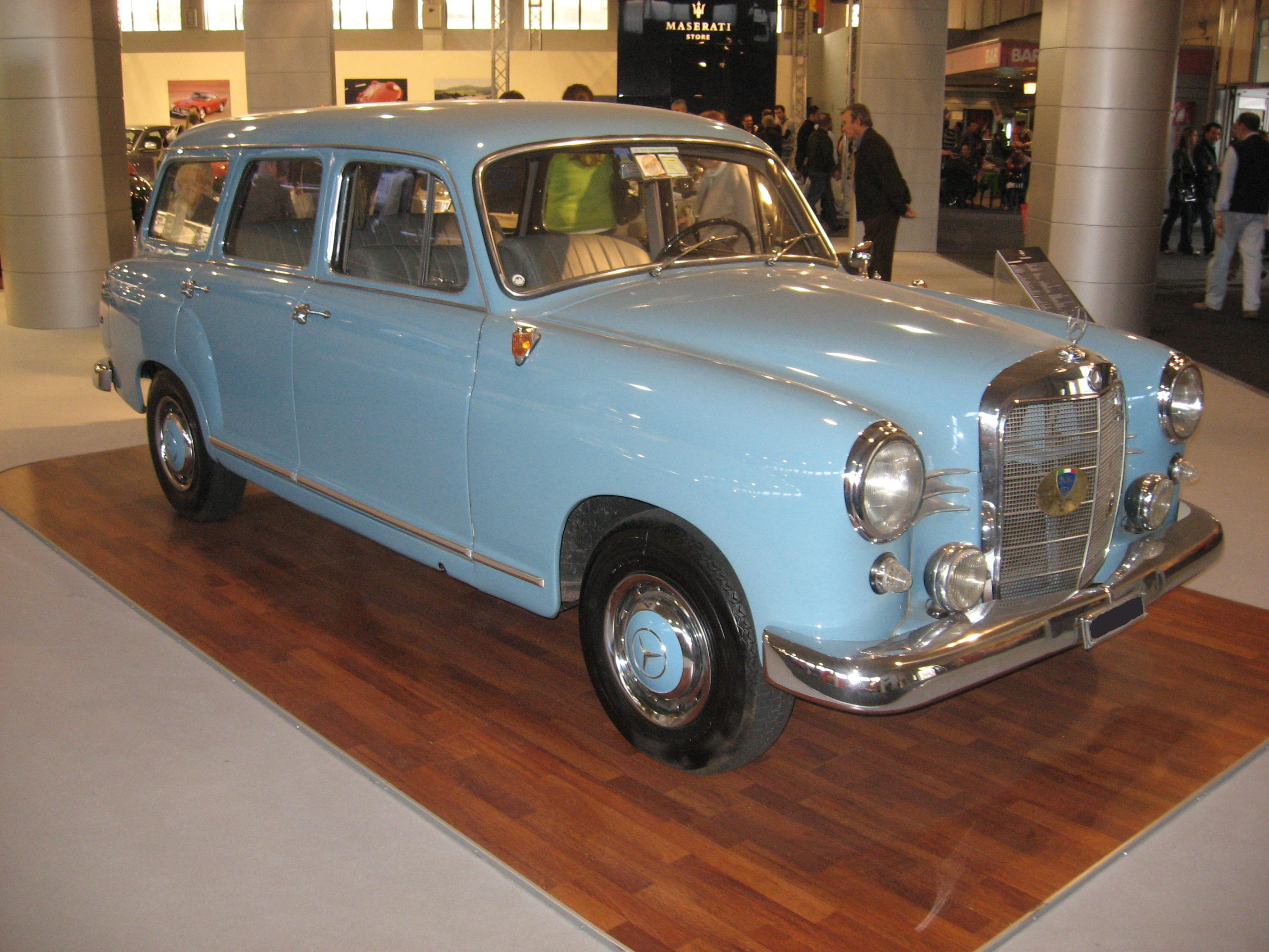 Subject: Mercedes-Benz 180D Giardinetta Date:October 26th, 2008 Event: Auto e Moto d'Epoca 2008 Place/Country: Padova, Italy I release all rights in the public domain.